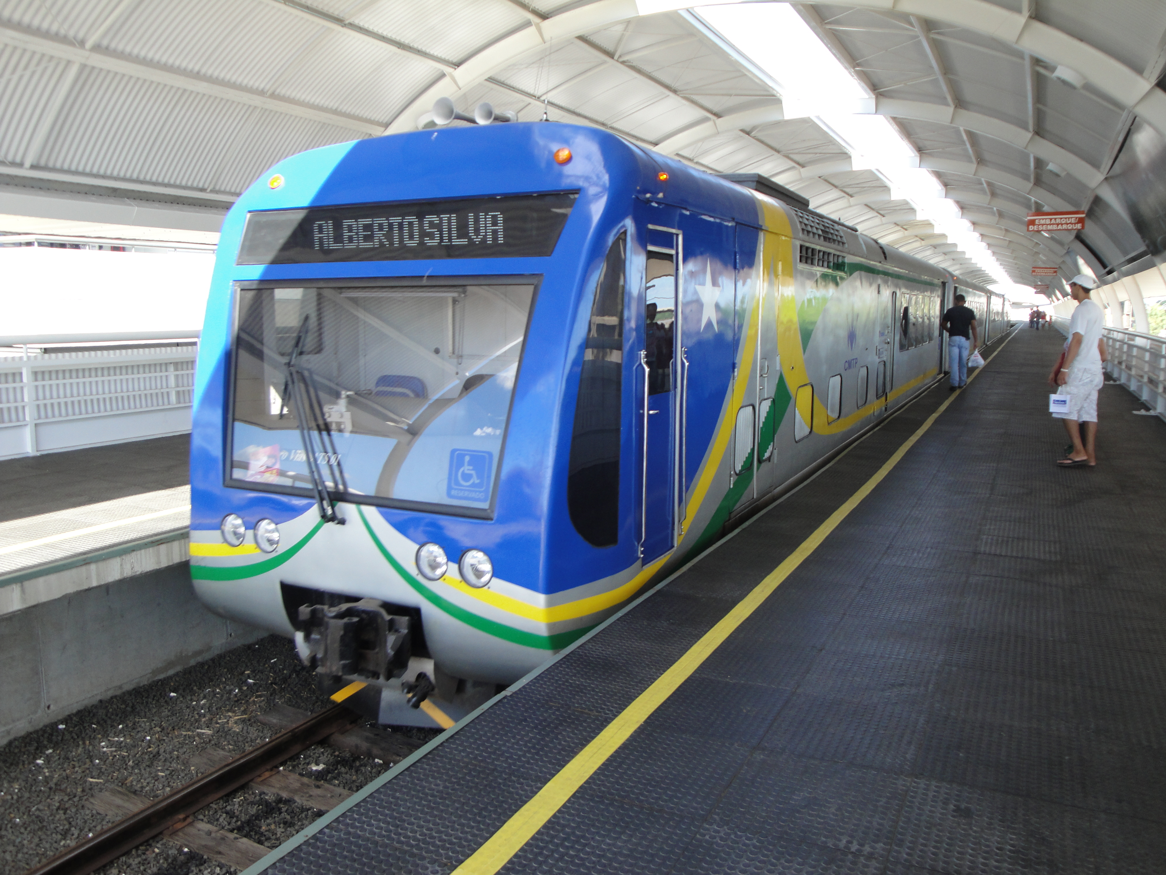 Metro Station Teresina - Piaui. Diesel Hydraulic Multiple Unit (DHMU), produced by Ganz-MÁVAG (Hungary), and reformed and re-powering engine Scania recently